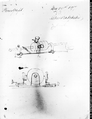 Edison's Tinfoil Phonograph Sketch